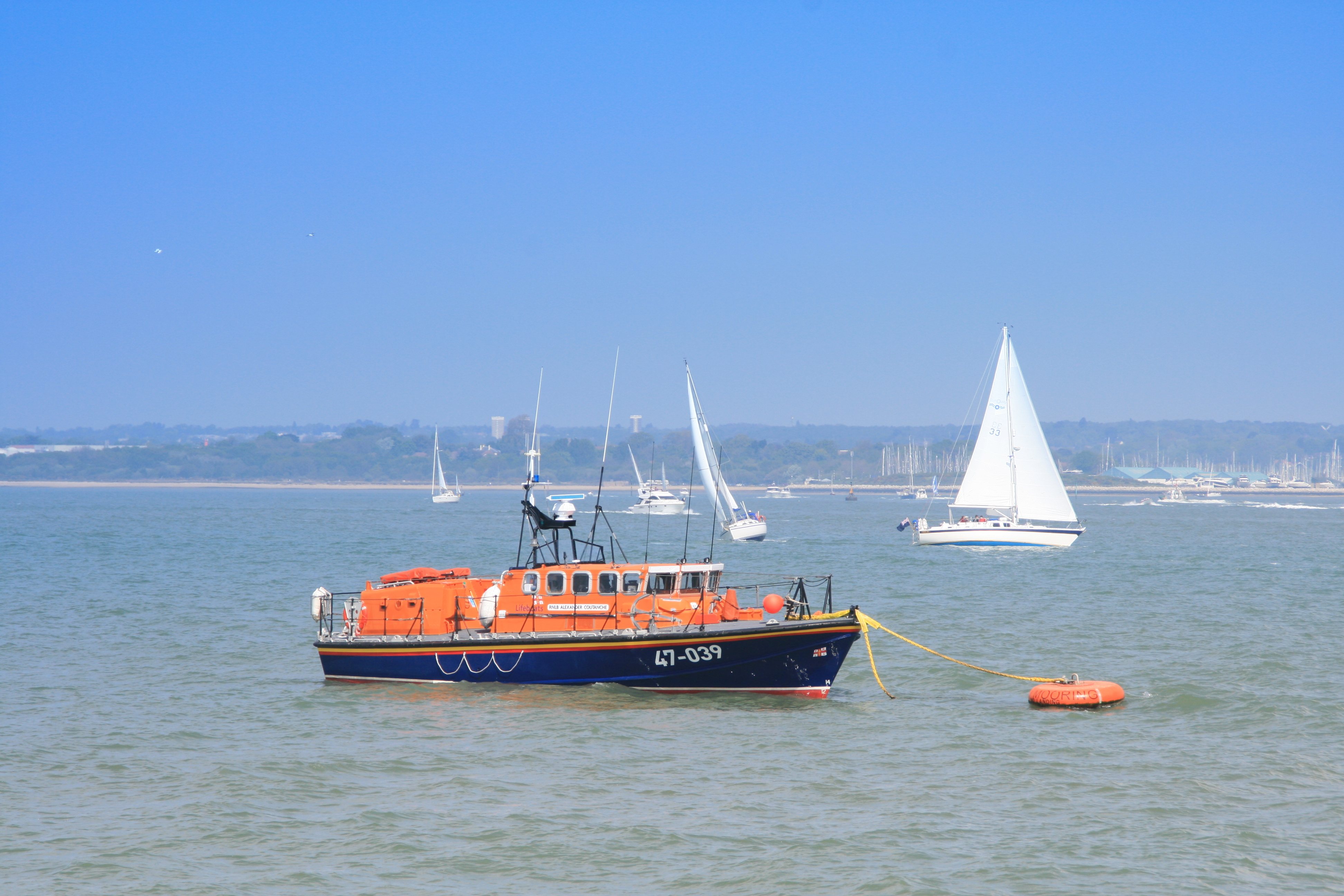 The RNLI Tyne class lifeboat Alexander Coutanche at moorings stationed at Calshot, Hampshire, UK, on 22 April 2011. Wikipedia editors are reminded that the copyright remains with the photographer, and that the terms of the Creative Commons Attribution-ShareAlike 3.0 Unported Licence that allow editors to reuse this image apply to Wikipedia editors also, as they do to other reusers of this image. Breaches of the licence terms are not only unlawful, but are also antisocial, in that breaches discourage photographers from making their images freely available to everyone without payment. Non-Wikipedia users are requested to advise Brian Burnell of its use other than on Wikipedia.